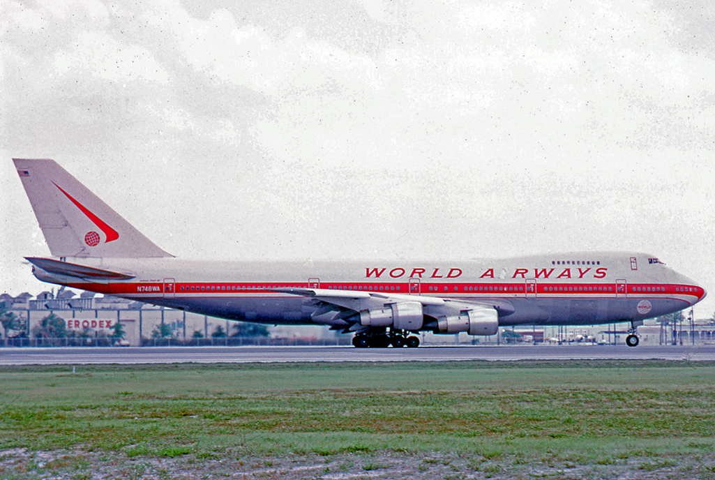 Boeing 747-273C N748WA of World Airways at Miami International Airport in 1974